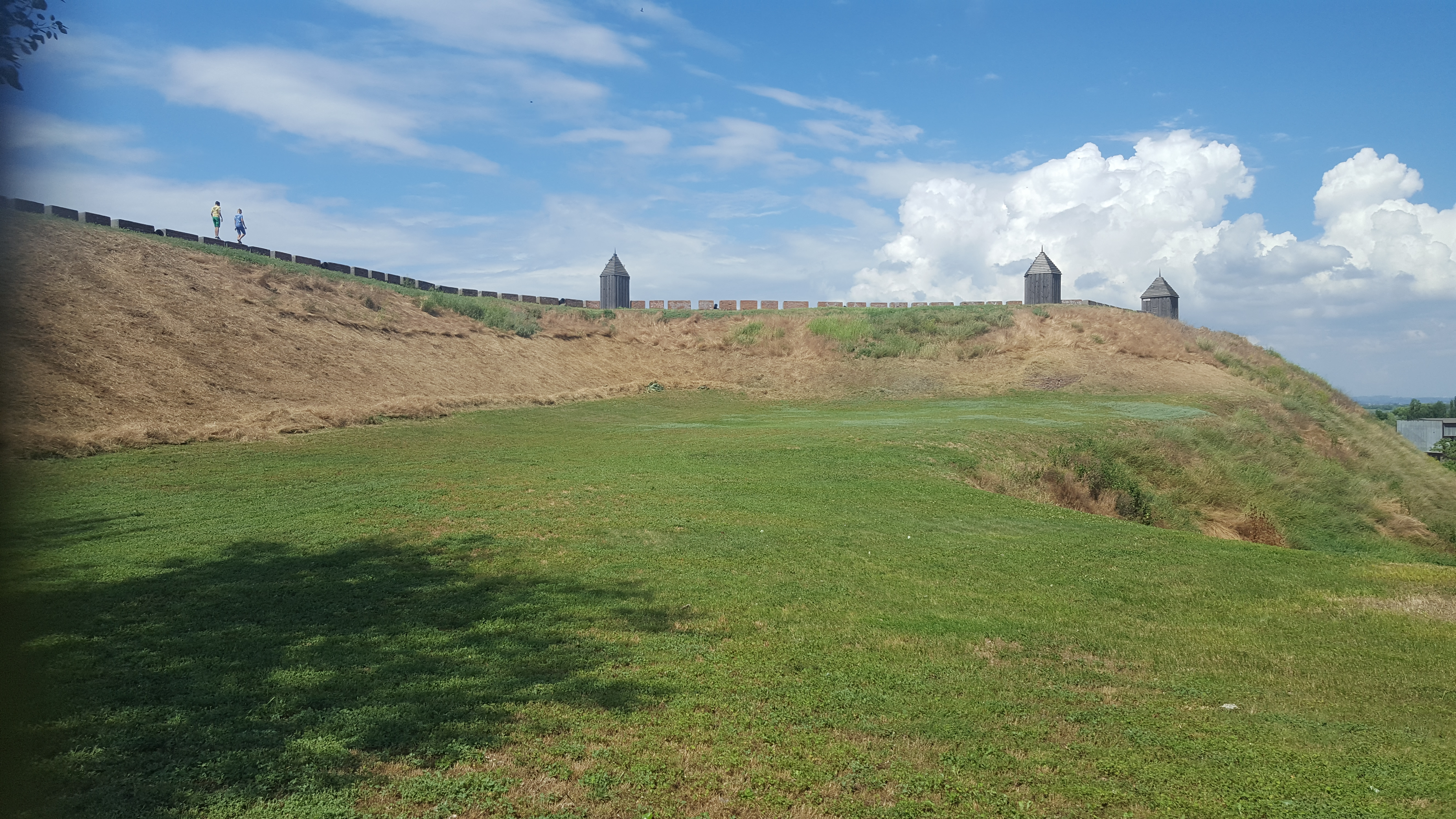 Azov fortress wall.